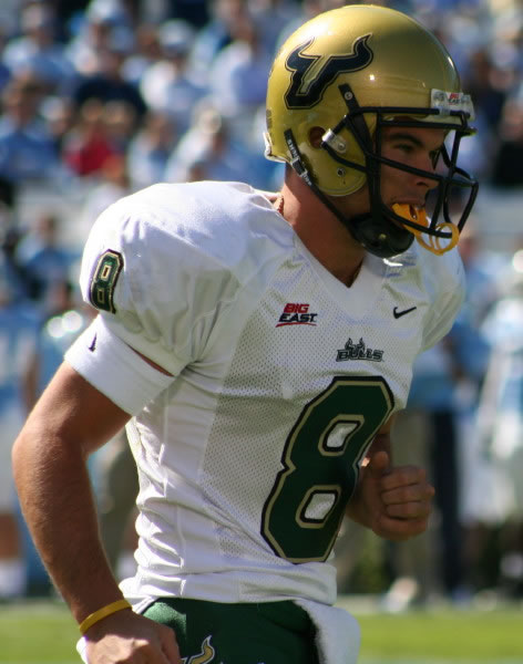 Matt Grothe at UNC game on October 14, 2006